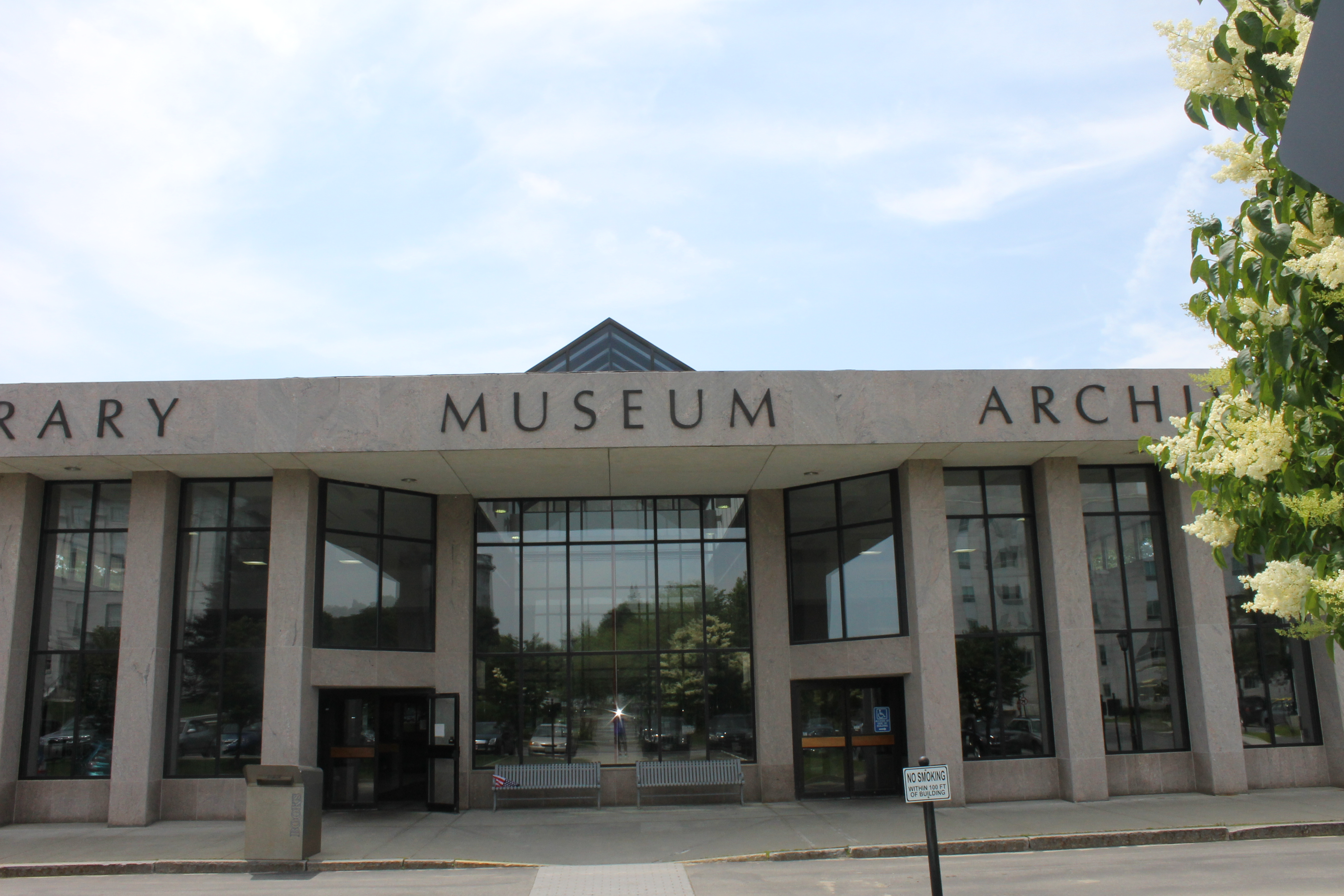 I took photo with Canon camera of Maine State Library, Museum, and Archives in Augusta.